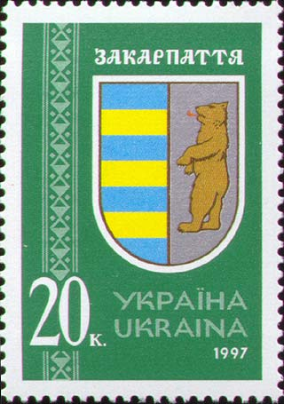 Stamp of Ukraine